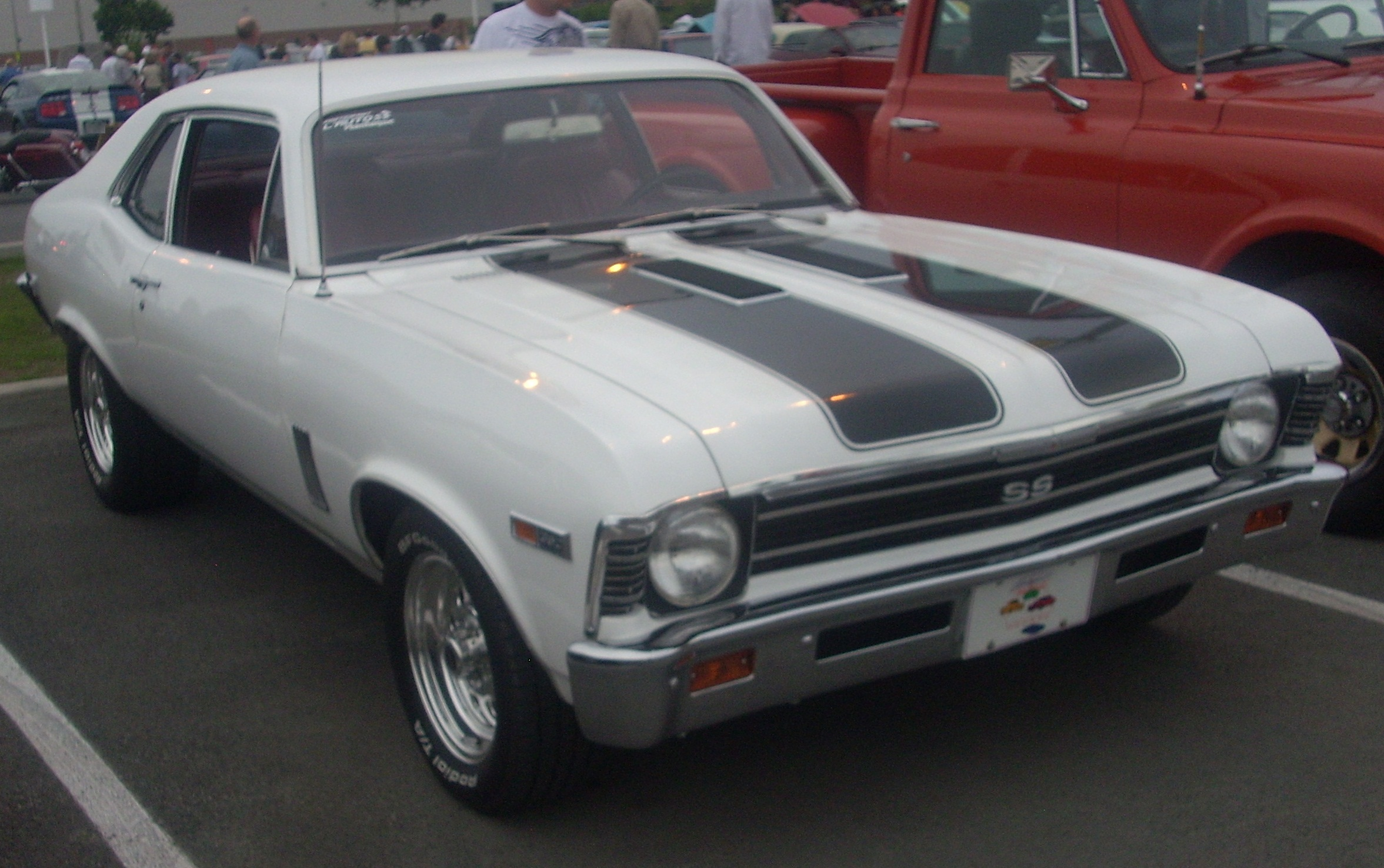 Chevrolet Nova photographed in Laval, Quebec, Canada at Centropolis Laval.